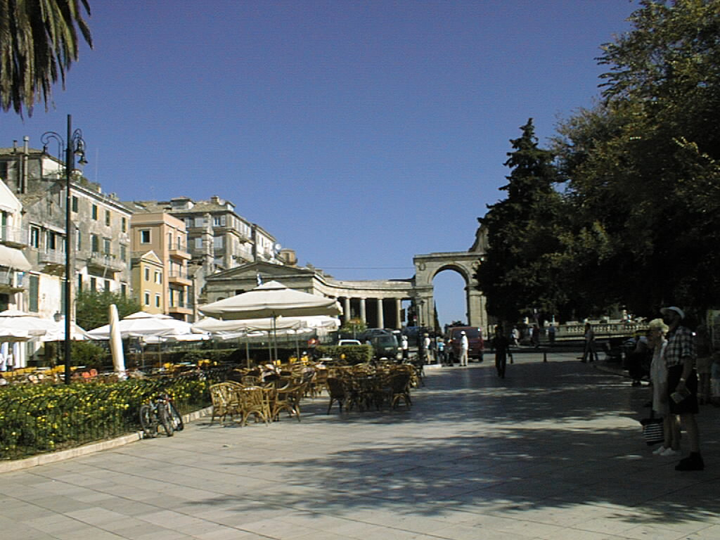 Corfu (city), (Κέρκυρα), Greece